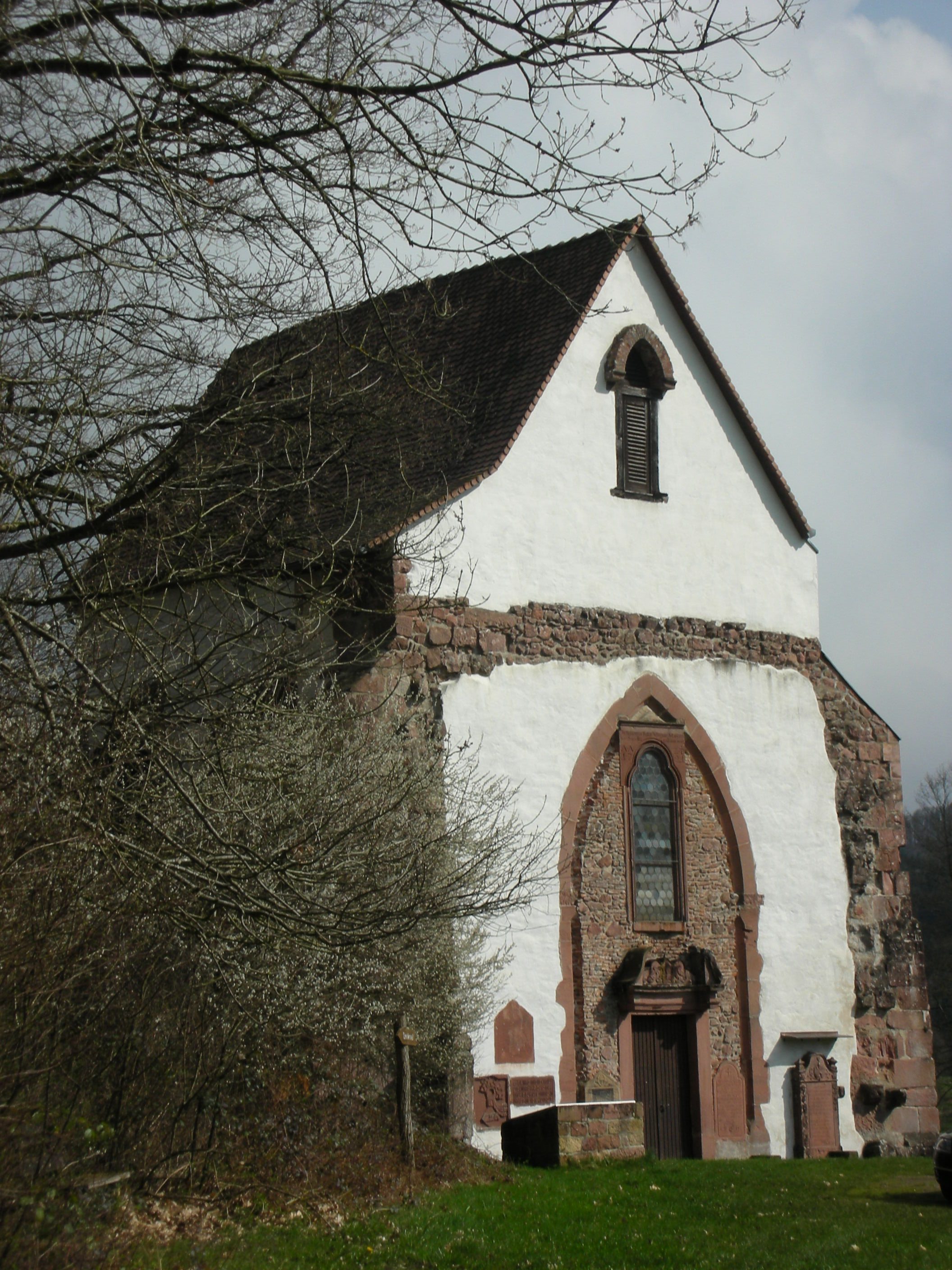 remaining chapel of Tennenbach Abbey, Emmendingen, Germany. See Kloster Tennenbach